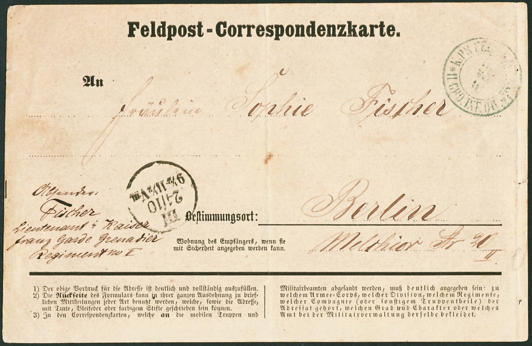 Prussian army postal service card from the Franco-Prussian war 1870/71; written in Dugny, 20 October 1870, from a second lieutenant with name Karl Georg Fischer (Prussian army) to his sister in Berlin Sender postmark: "Royal-Prussian army postal service - II grenadier infantry division - 20 October 1870" (rest illegibly) Passageway postmark: III (army corps) (Austrian?), 21 October 1870 Receiver address: Berlin, Melchiorstrasse 20 (today town district "Friedrichshain-Kreuzberg", the dwelling house at that time does not exist any more)